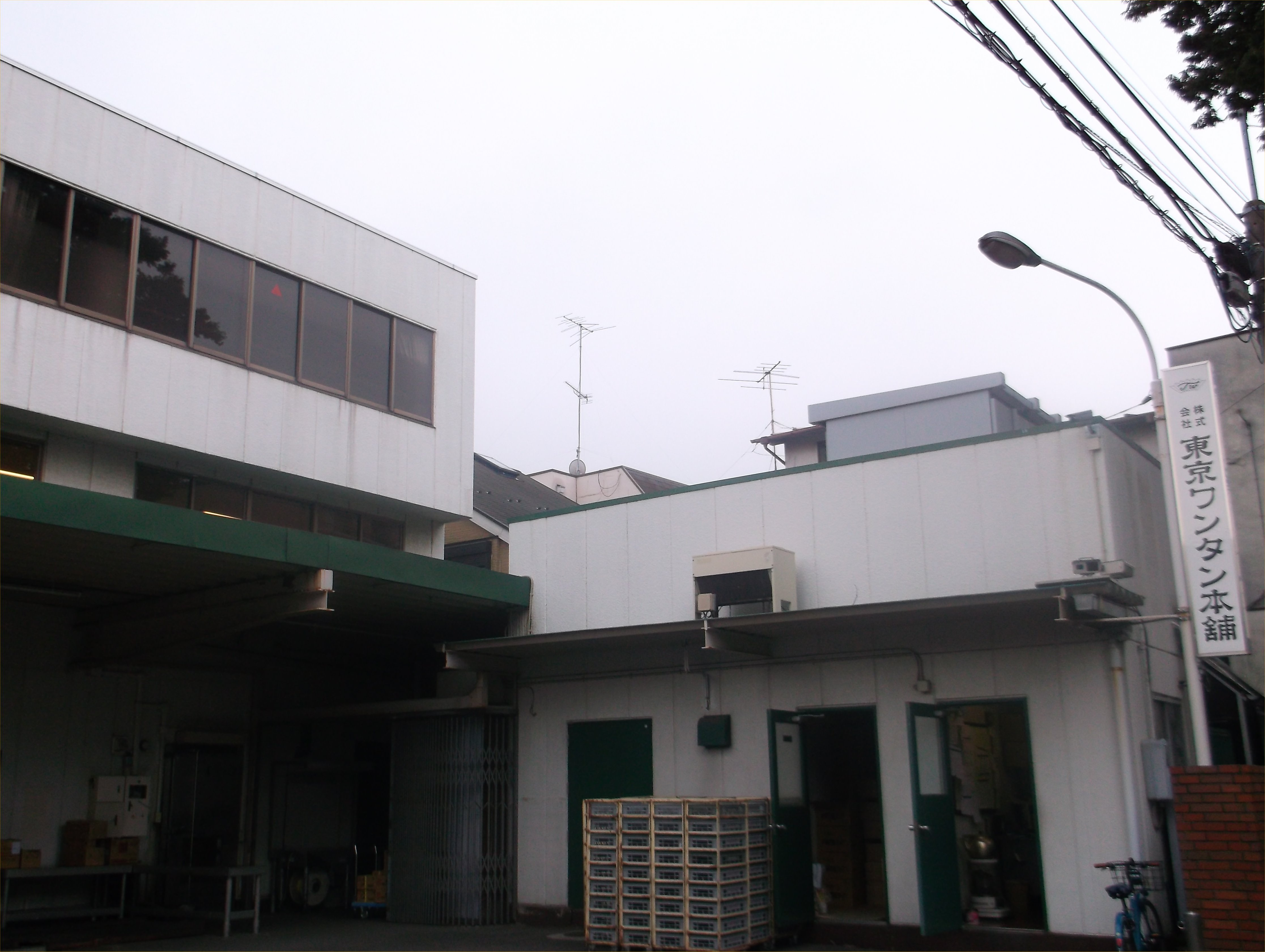 A photo of overview of Tokyo Wantan Honpo head office,Taishido,Setagaya-ku,Tokyo,Japan.